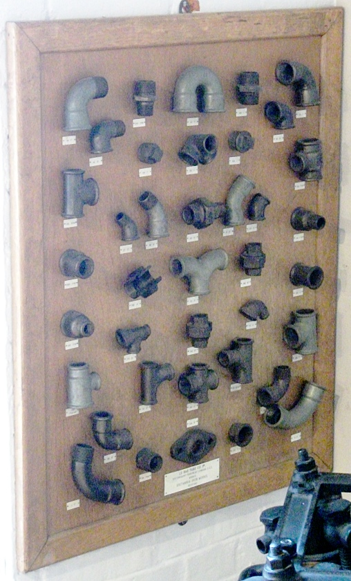 A display of malleable iron tube fittings made at the Britannia Iron Works in Bedford and each bearing the "GF" trademark.